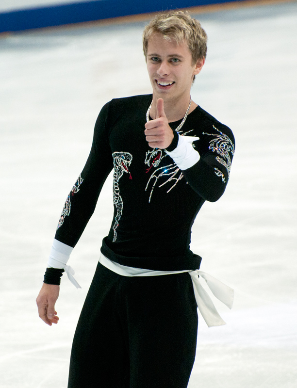 2011 Cup of Russia, short program.